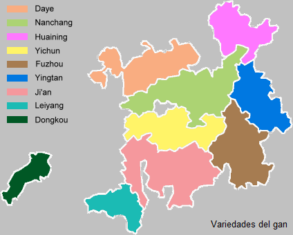 Varietis of gan, spanish.